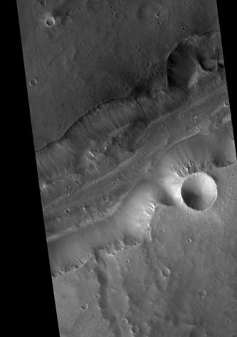 Bahram Vallis, as seen by hirise. Location is 21.3 degrees north latitude and 303.5 degrees east longitude. Image was taken by the Mars Reconnaissance Orbiter's HiRISE. The HiRISE camera was built by Ball Aerospace and Technology Corporation and is operated by the University of Arizona. Image courtesy NASA/JPL/University of Arizona.